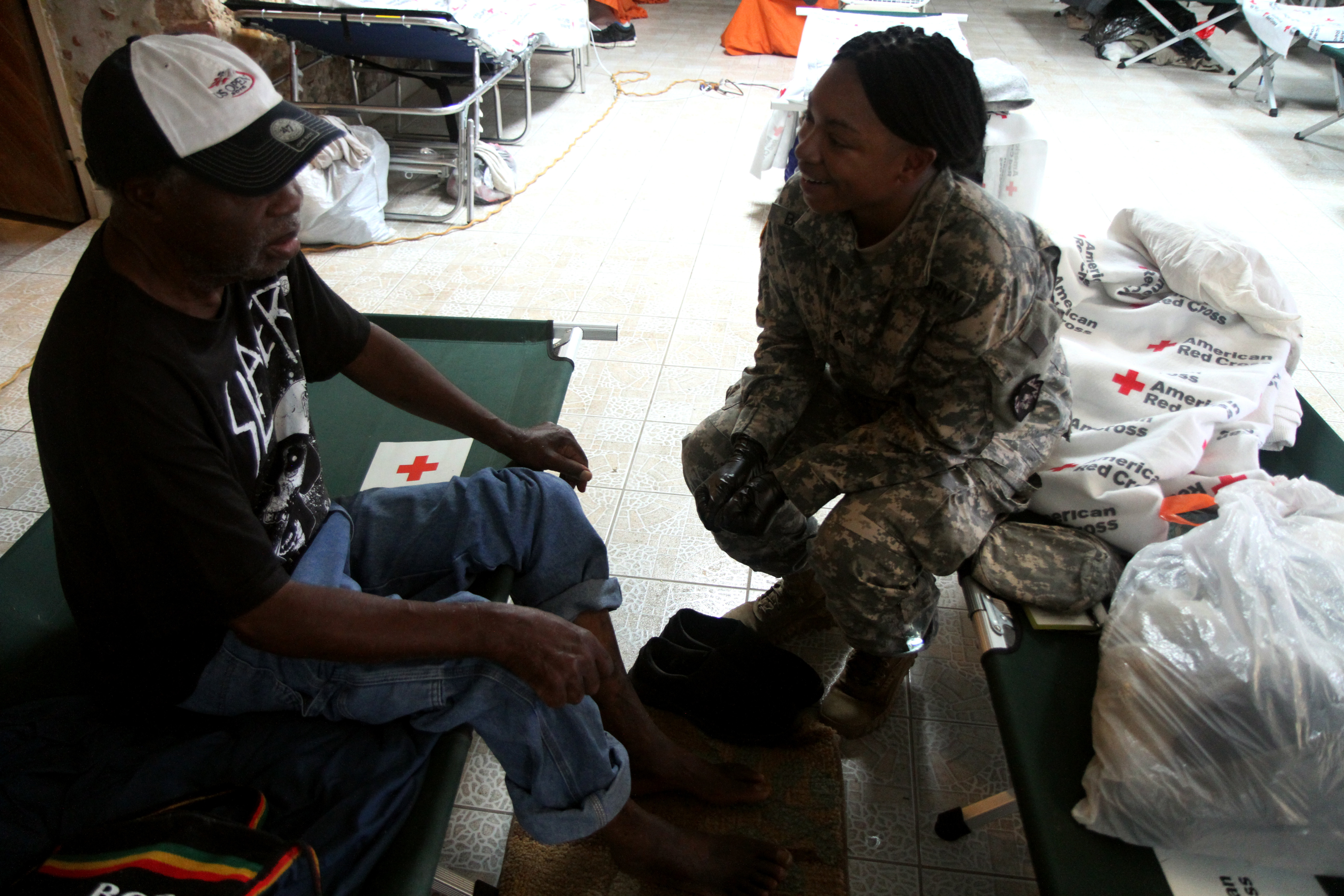 Sgt. Laquila Banks, a combat medic specialist with the 108th Area Medical Support Company, 213th regional Support Group, Pennsylvania Army National Guard, provides medical assistance to Rudolf Bentz, a resident of St. John, U.S. Virgin Islands during a visit by Soldiers to the Bethany Church Shelter Oct. 16, on St. John, U.S. Virgin Islands, part of ongoing Hurricane Maria relief efforts. (U.S. Army National Guard photo by Spc. Anna Churco)